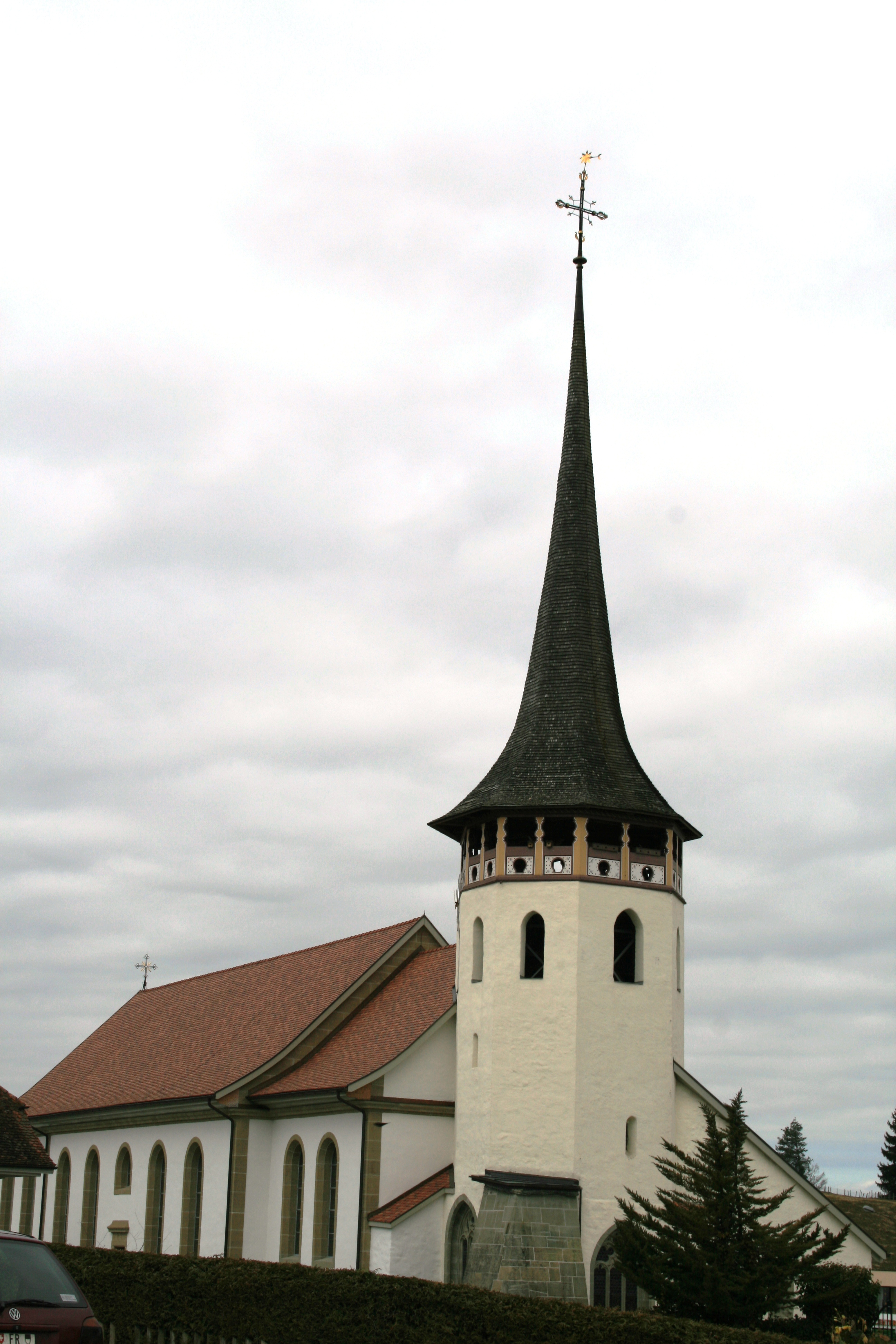 Rom.-cath. church of Tafers FR, Switzerland